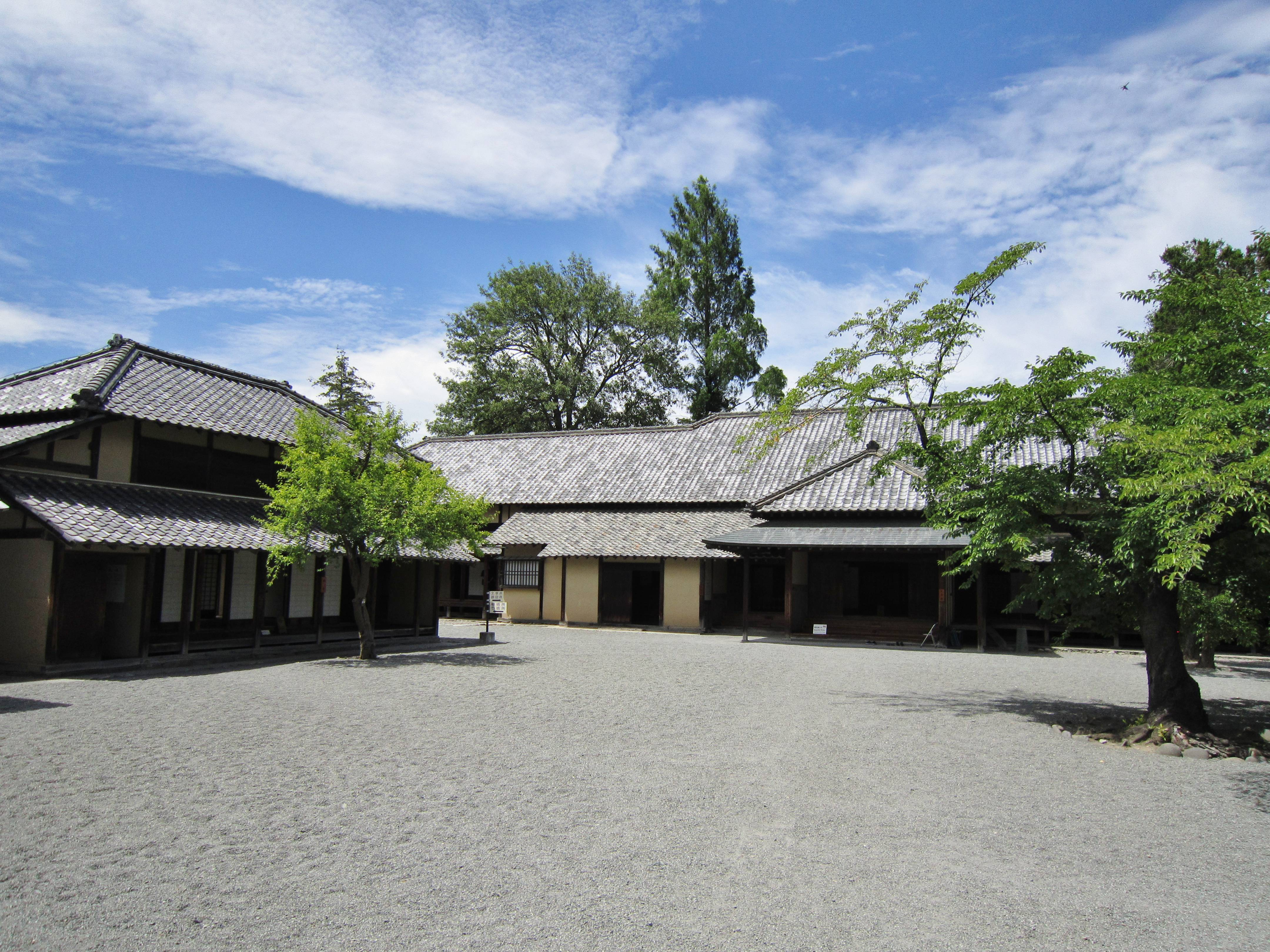 Former Matsushiro Literary and Military School.